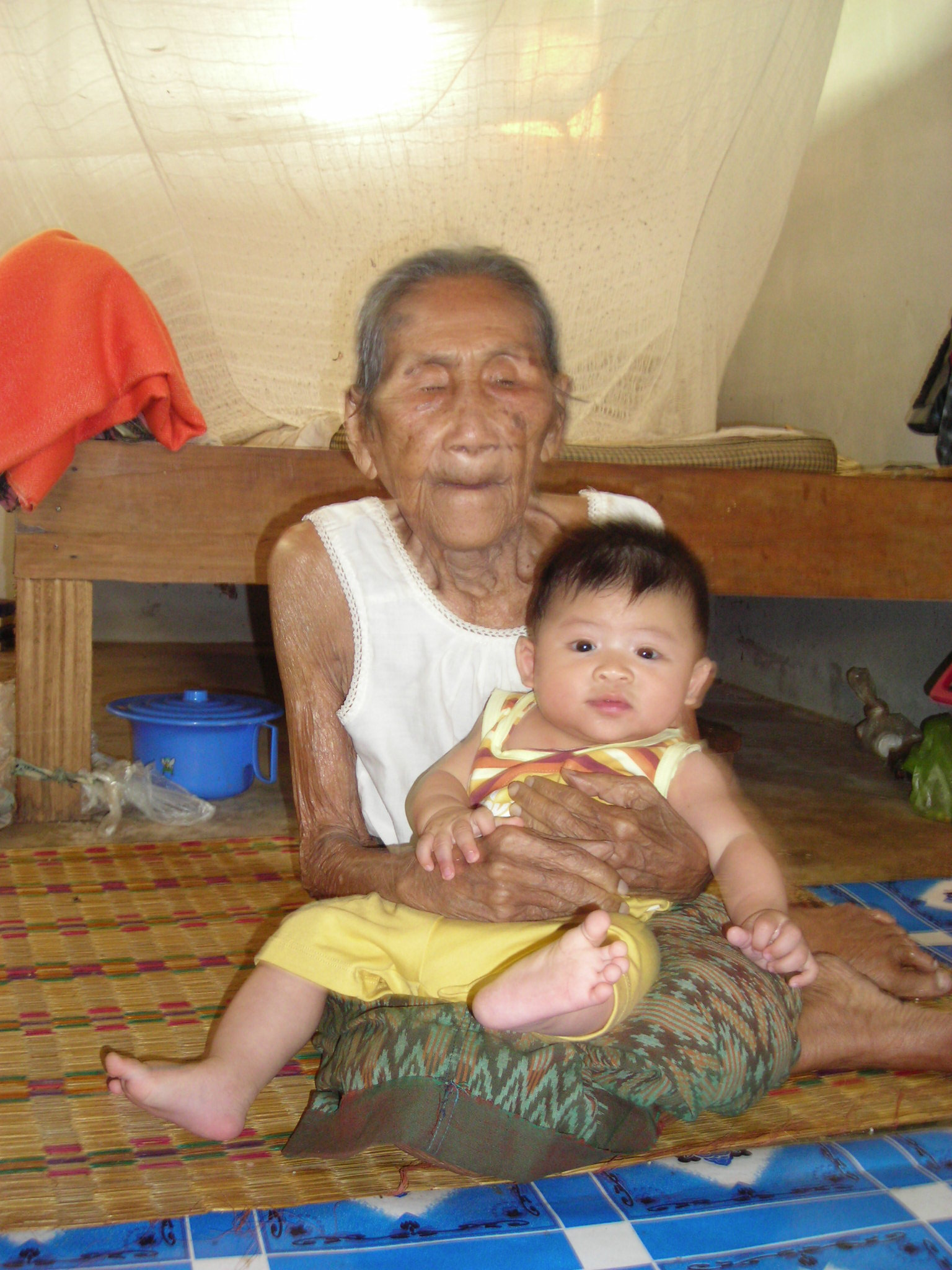 95 y.o. woman holding a 5 month old baby boy (family members — Thailand).